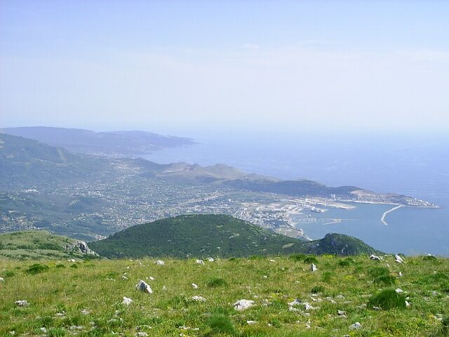 Views from the Vrsuta mountains in Montenegro